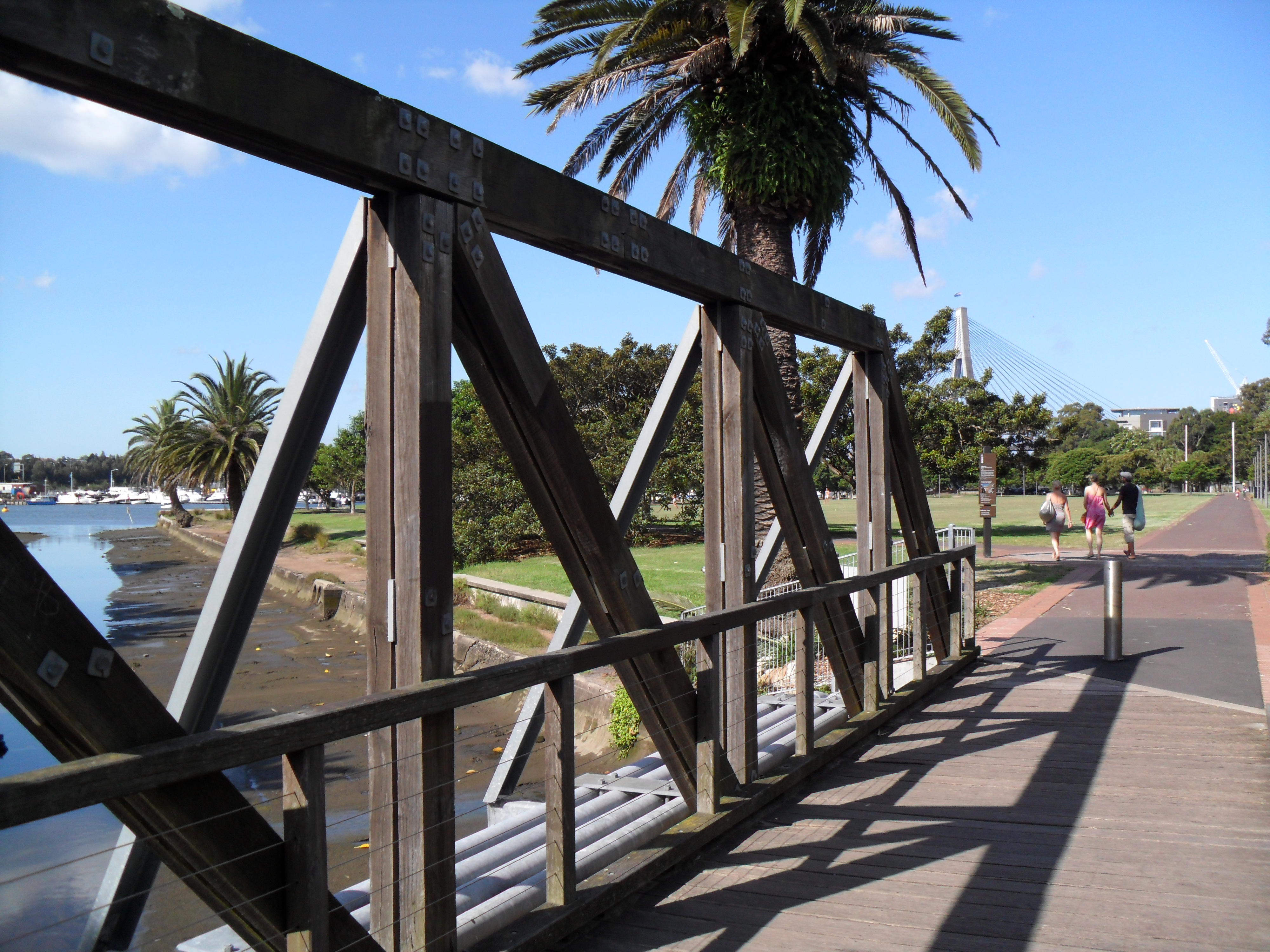 Johnstons Creek (stormwater channel), pedestrian bridge, Sydney